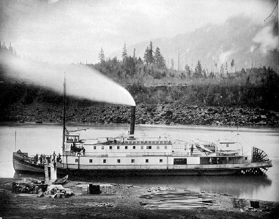 Sternwheeler Western Slope at Yale, BC on Fraser River.